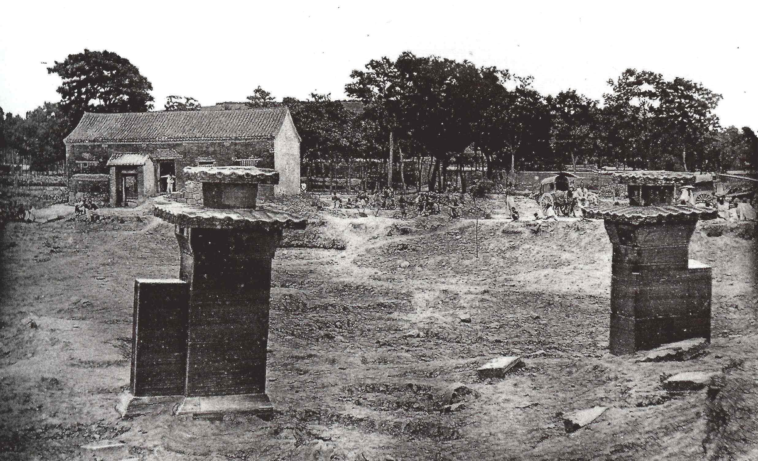 A pair of que, or "pillar gates", small monumental gate towers standing in front of the Wu Family Shrines built in Shandong province, China, during the 2nd century AD. This photo was taken at the turn of the 20th century by Édouard Chavannes (died 1918).